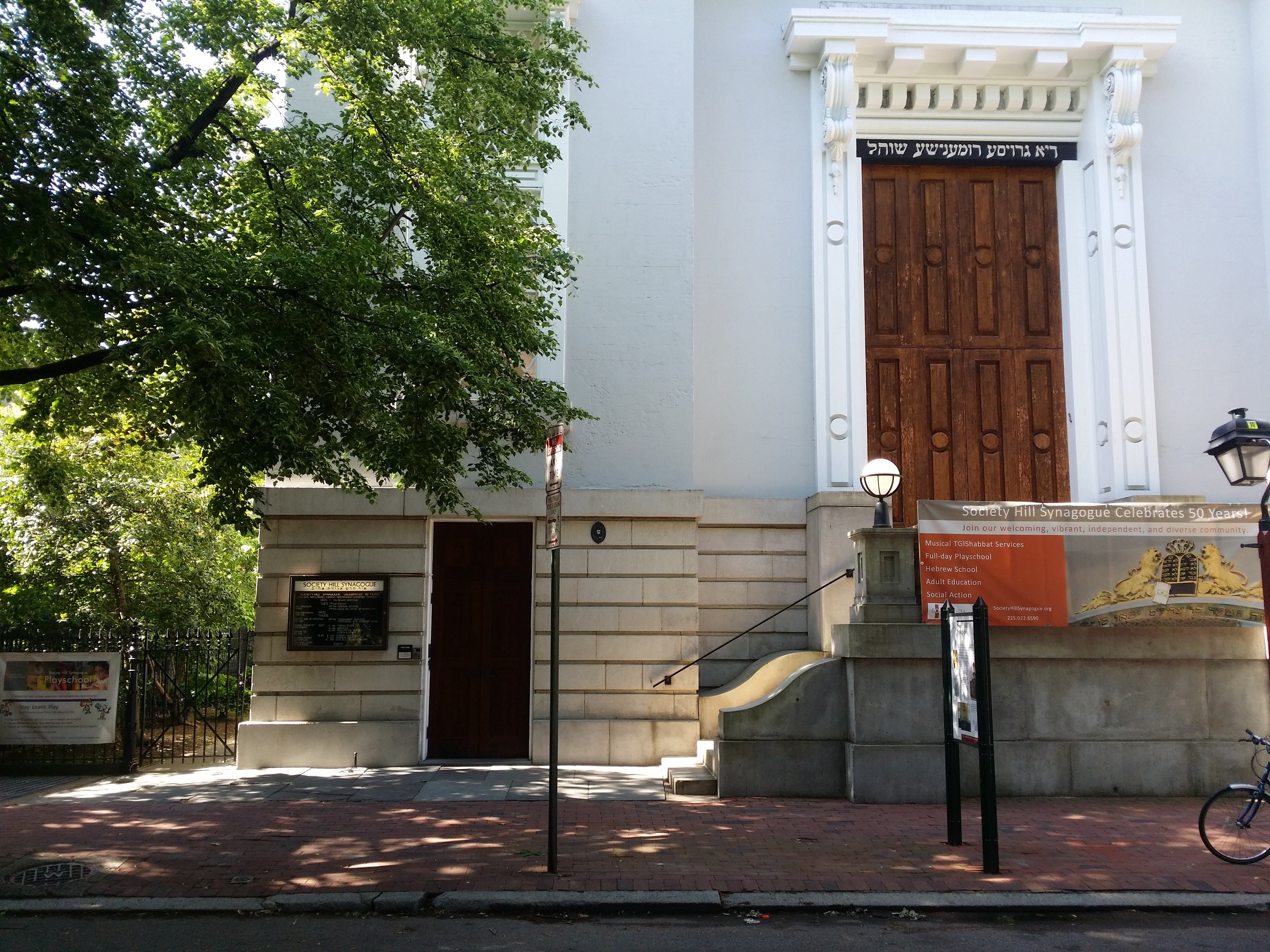 Society Hill Synagogue, 418 Spruce Street, Philadelphia, Pennsylvania. Photo by Morris Levin.